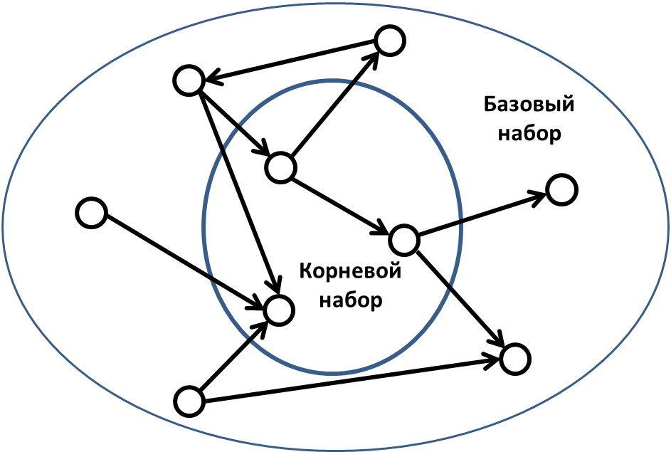 Expanding the root set into a base set.